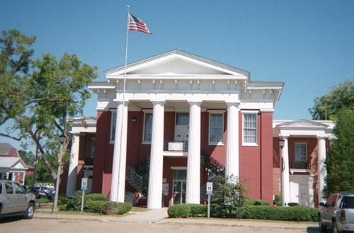 Wilcox County Courthouse (Built 1857), Camden, Alabama. Listed on the National Register of Historic Places as a part of the Wilcox County Courthouse Historic District.